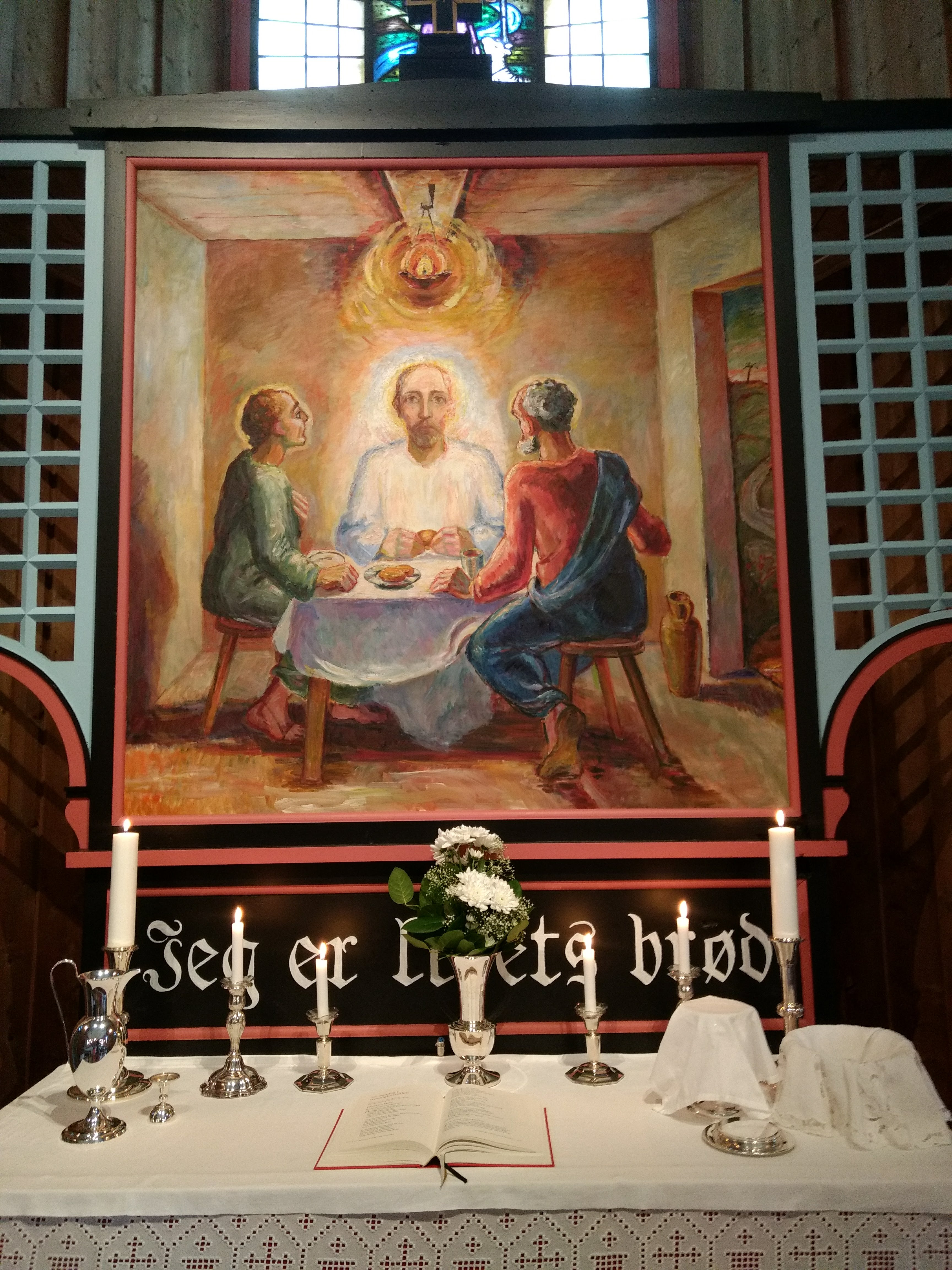 Altar piece, Rotsund chapel